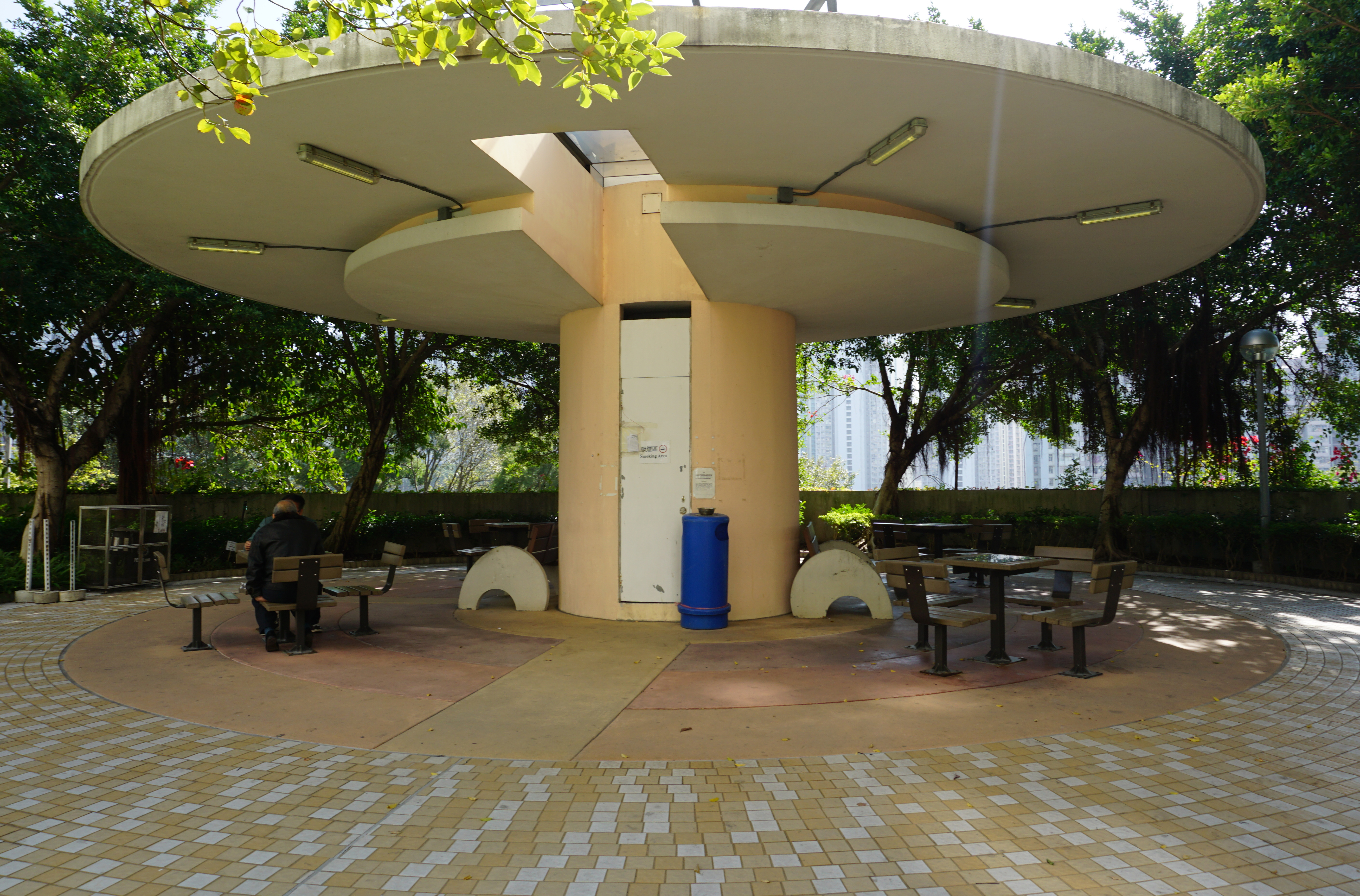 Sau Mau Ping South Estate in Sau Mau Ping, Hong Kong.